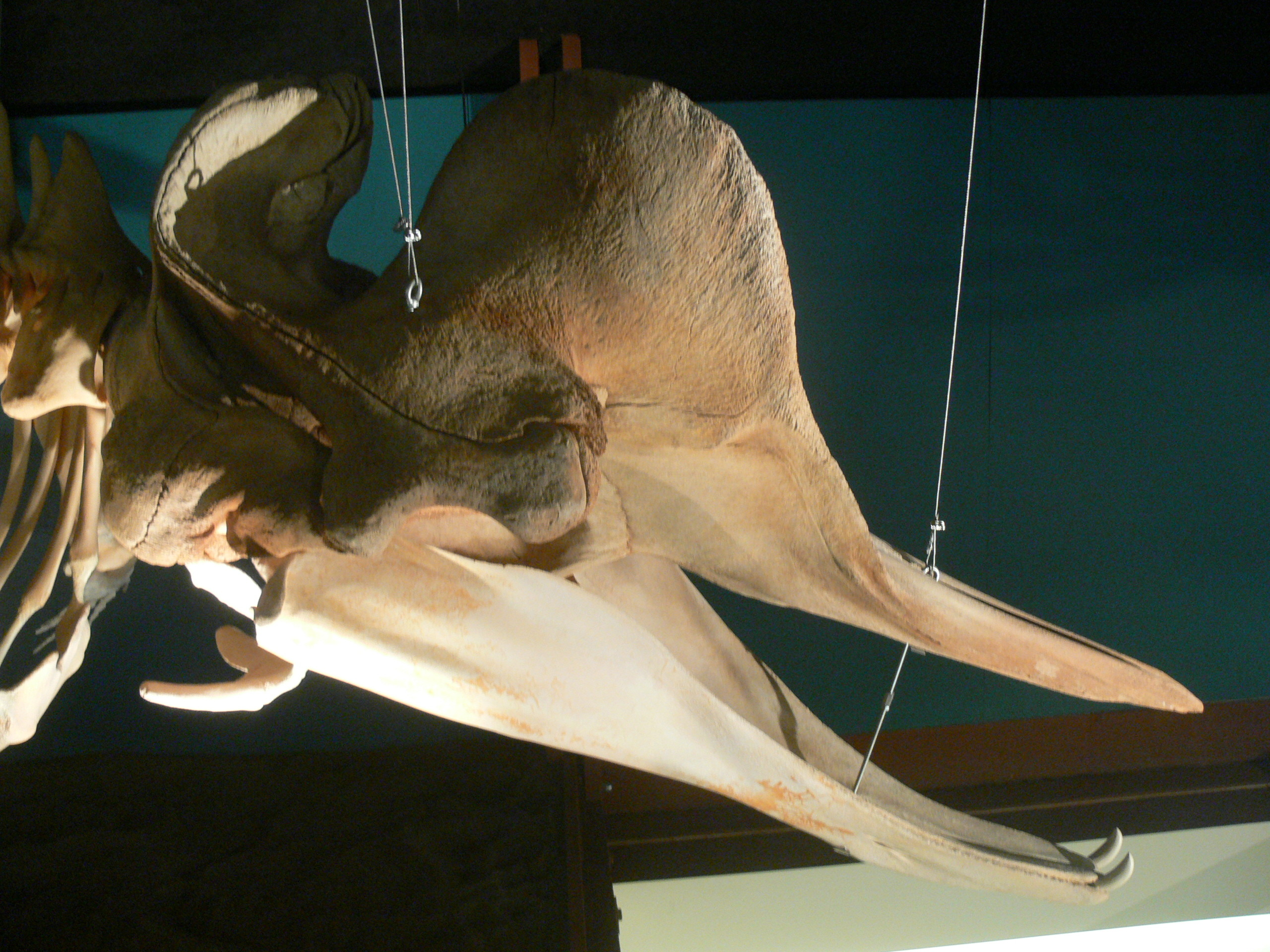 Whale Museum in Húsavík. Skull of a Northern bottlenose whale, found 1996 in Skjalfandi Bay ( Iceland ).